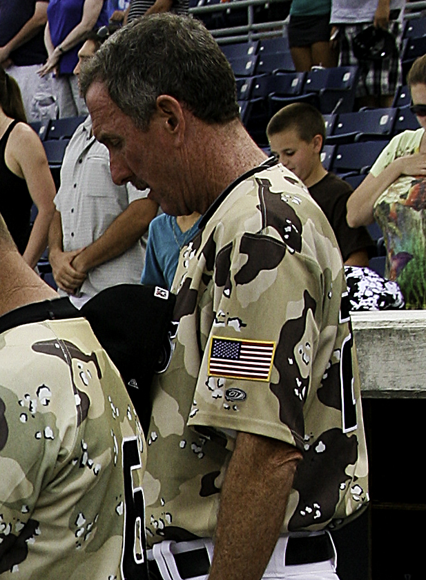 Members of the Norfolk Tides before a 2011 game at Harbor Park in Norfolk, Virginia.